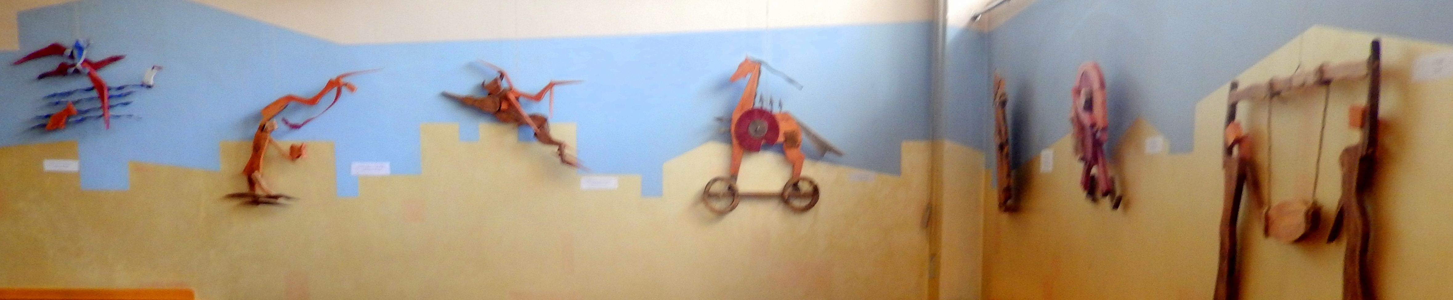 Wooden creatures by Sergey Tovmassian, taken during his personal exhibition at Puppet's Theater, Yerevan